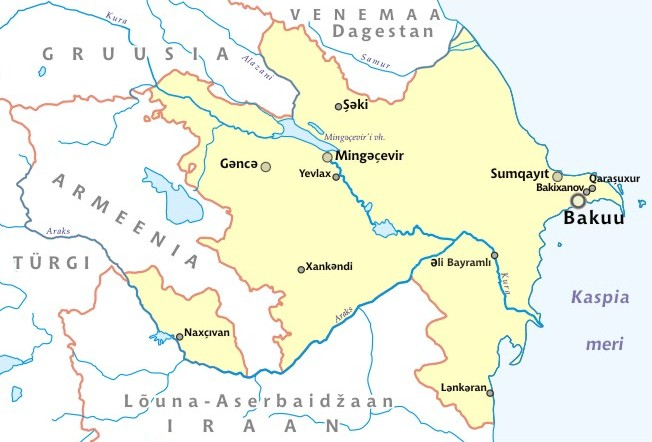 Map of Azerbaijan in Estonian